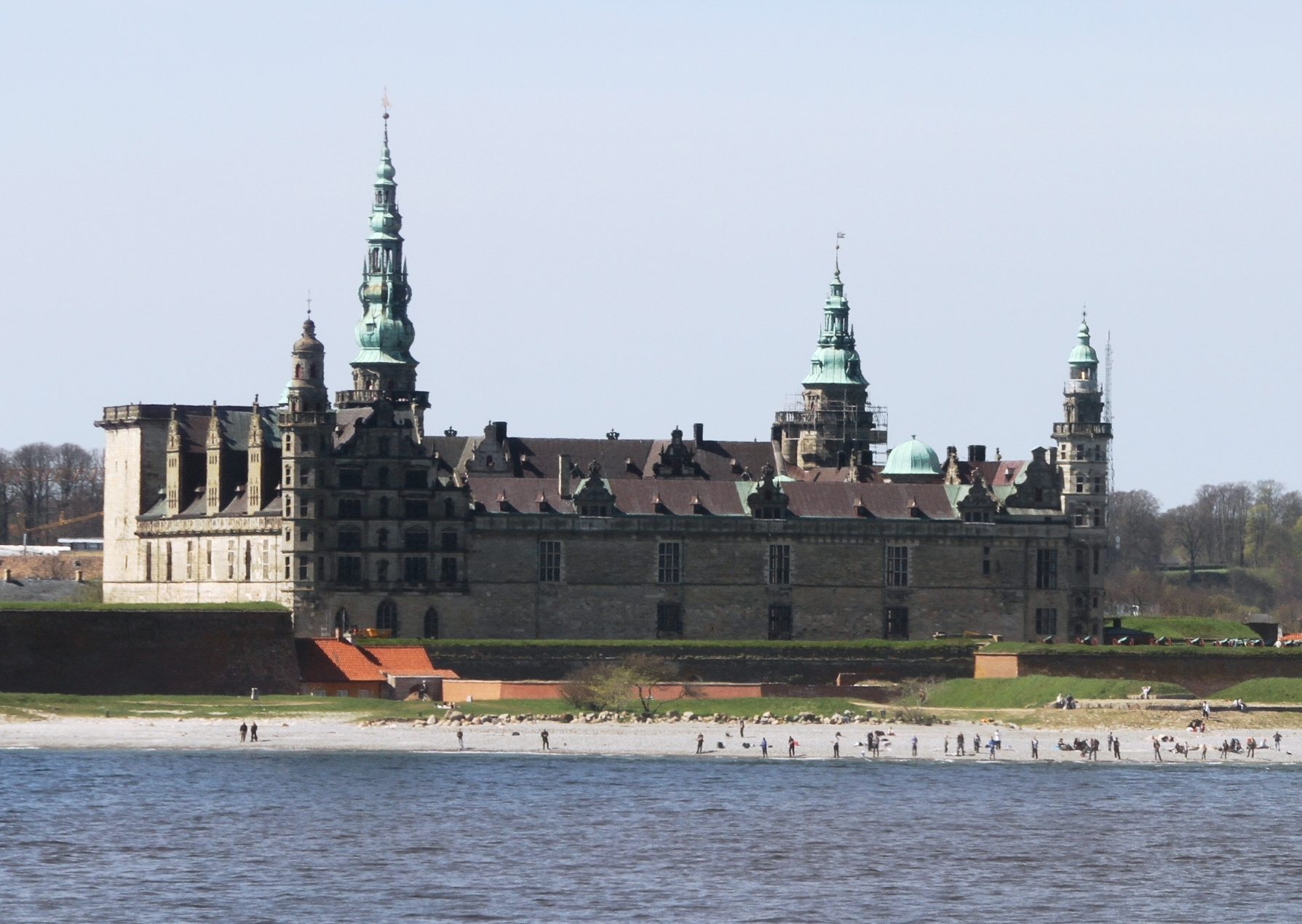 Image from the municipality of Helsingør (Elsinore), northeastern Sjælland (Zealand) - Denmark.